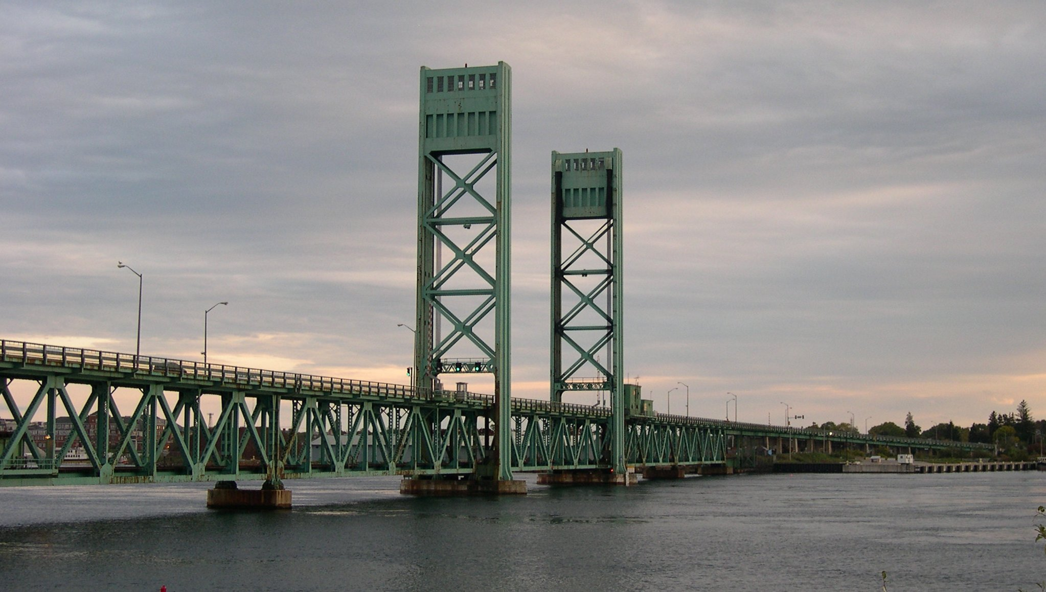 The Sarah Mildred Long Bridge, seen from Kittery, Maine.